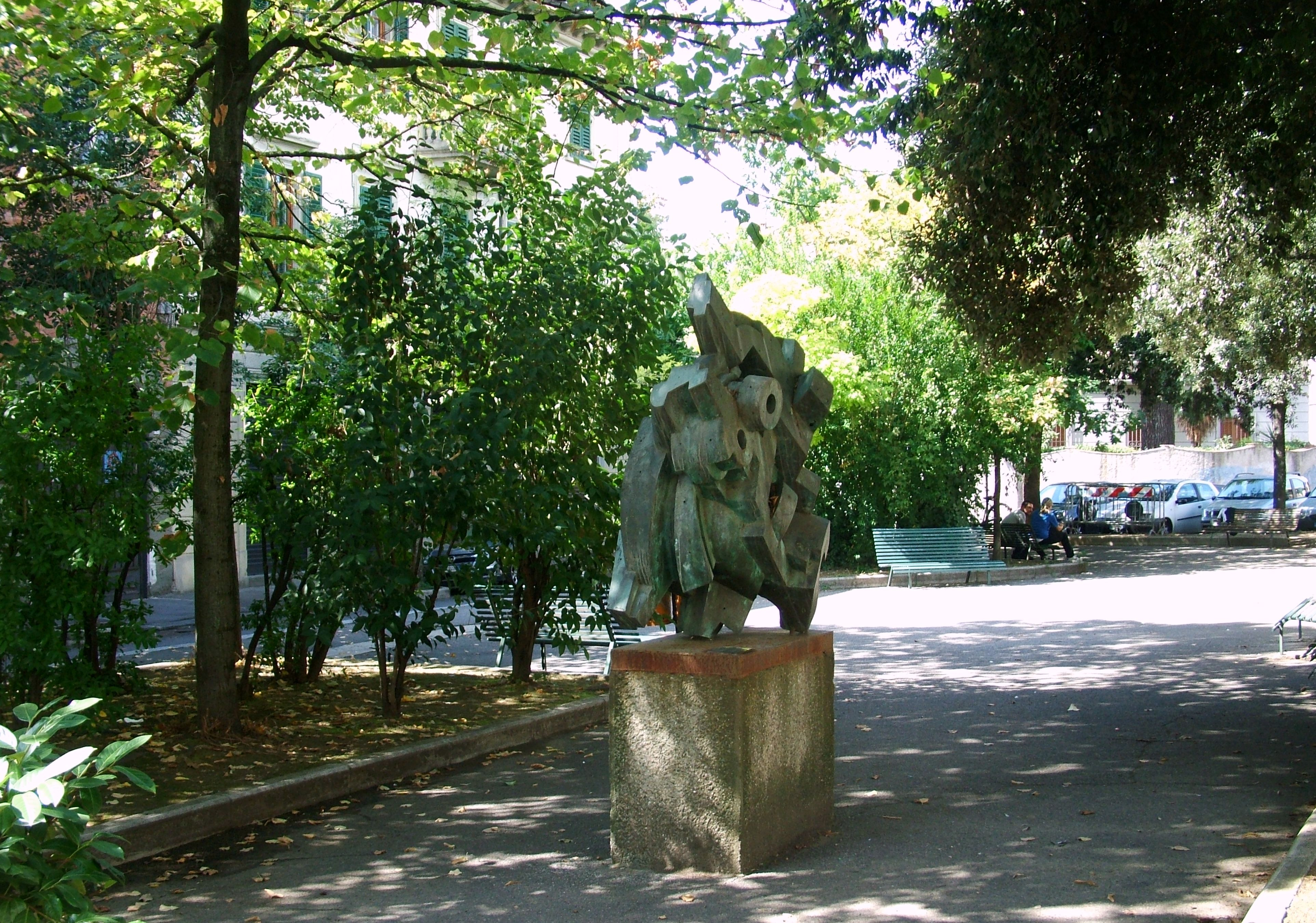 the small garden in piazza san gervasio, florence